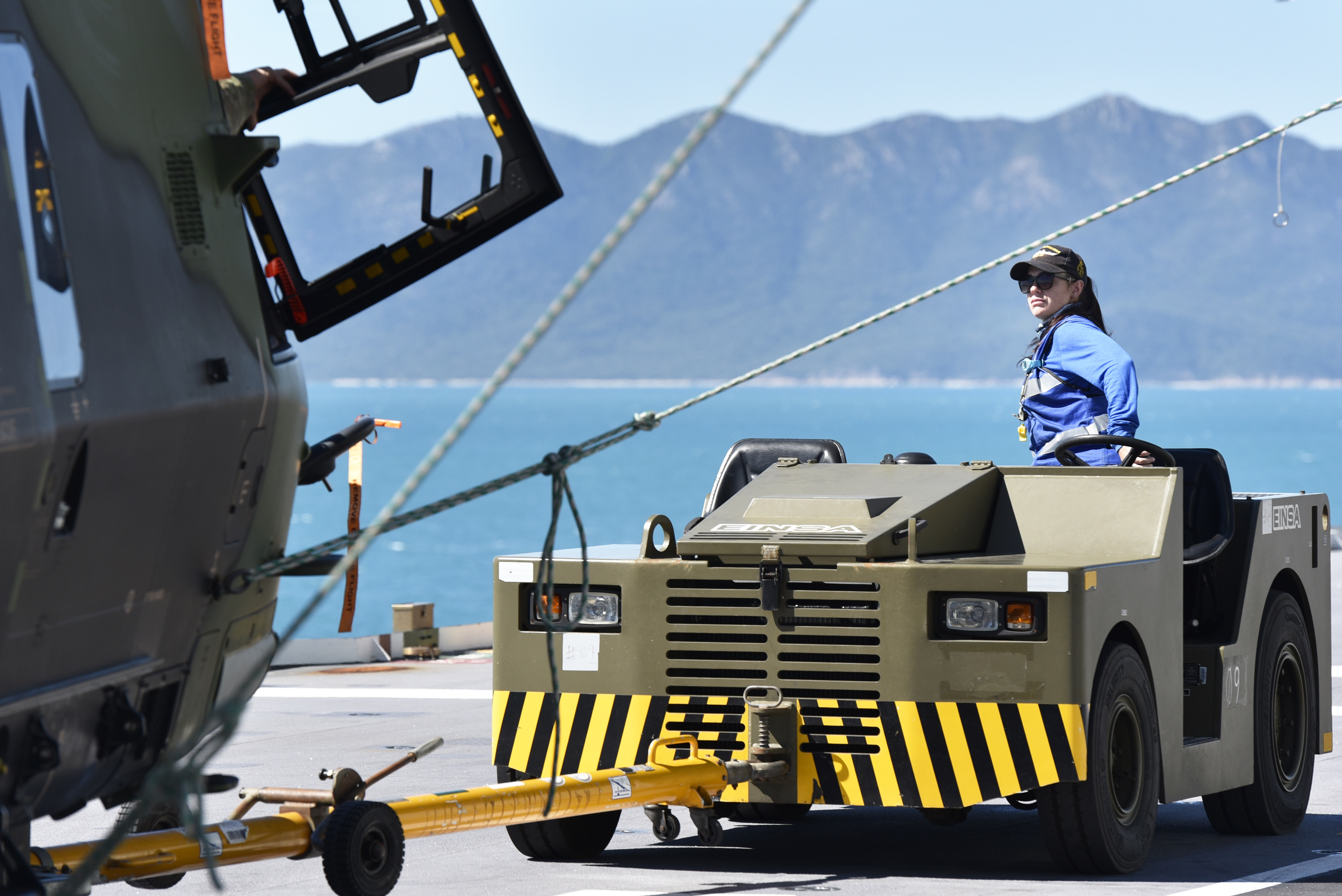 Royal Australian Navy Leading Seaman Laura Whittington moves a helicopter around the flight deck during operations aboard the HMAS Canberra at Sea June 1, 2018. The U.S. Marine Corps worked with the Australian Defence Force Amphibious Group during Ex Sea Series 18 to train together in amphibious operations. (U.S. Marine Corps photo by Staff Sgt. Daniel Wetzel)